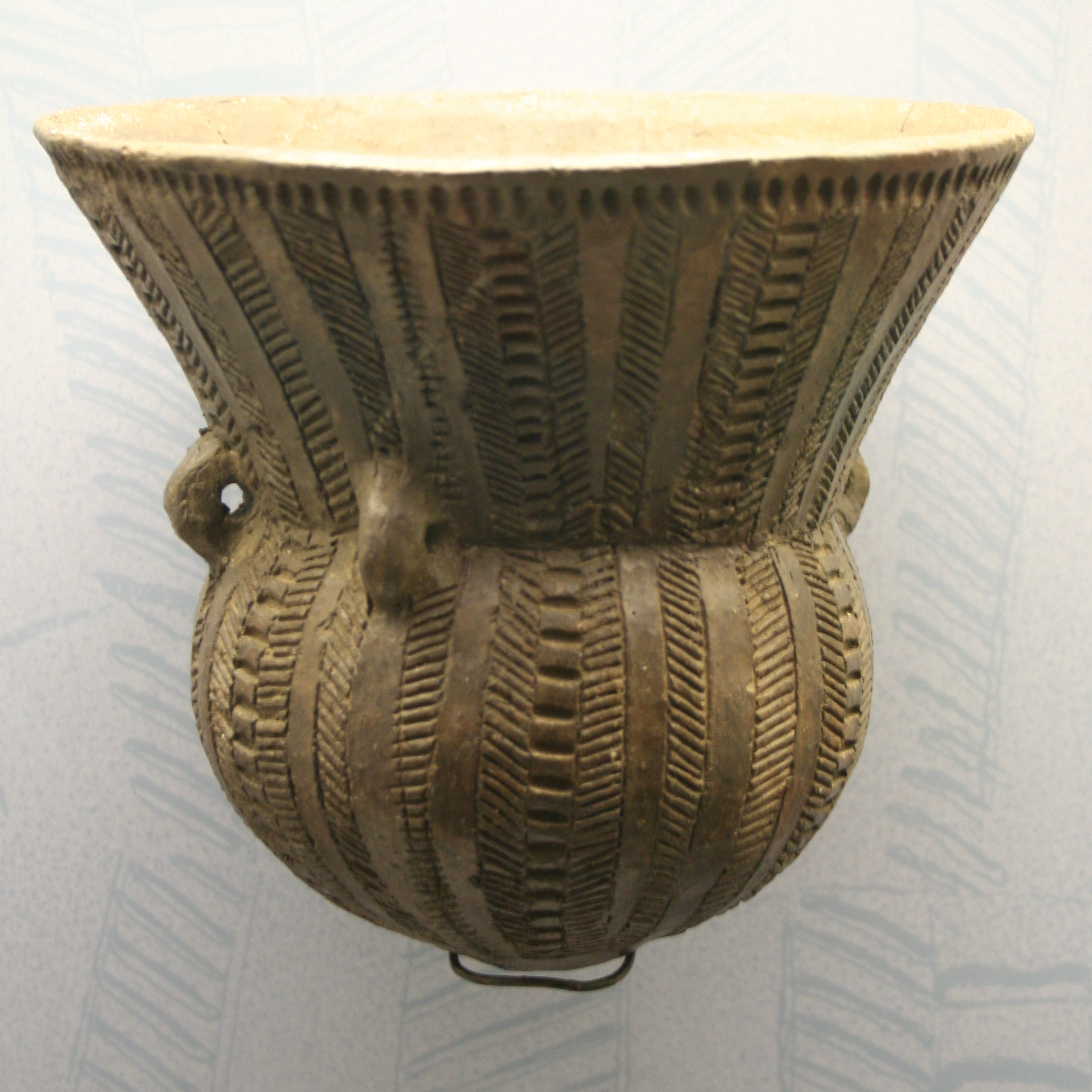 Archaeological state museum Schleswig-Holstein, Gottorf Castle